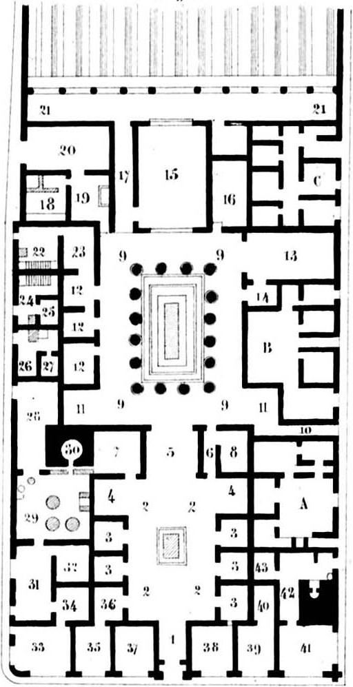 House of Pansa, Pompeii, Regio VI, Insula 6, House 1, plan.